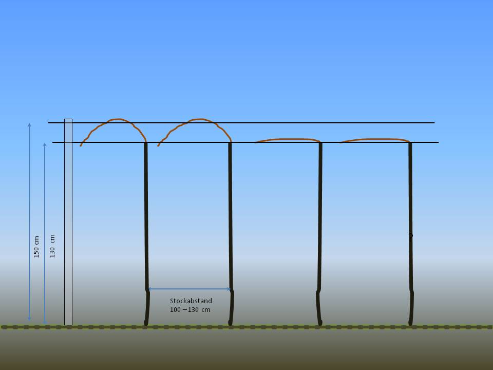 Hochdrahterziehung